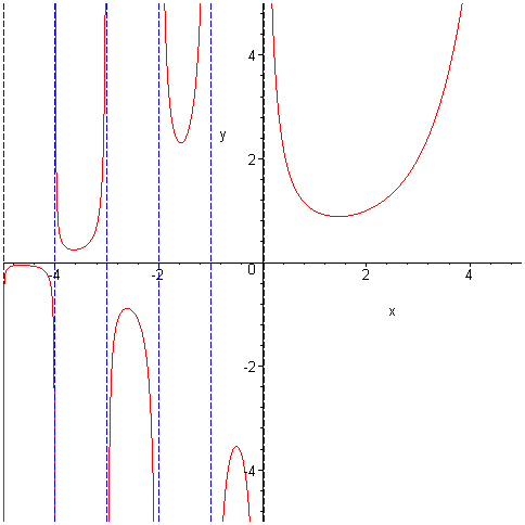 gamma(x) Created with Maple: plots[display]({plot(GAMMA(x),x=-5..5,y=-5..5,numpoints=2000,discont=true),seq(PLOT(CURVES( k, -10], [k, 10 ),CURVES( 0.03, -5], [0.03, 5 ),LINESTYLE(3),COLOR(RGB, 0, 0, 1)),k=-5..0)})